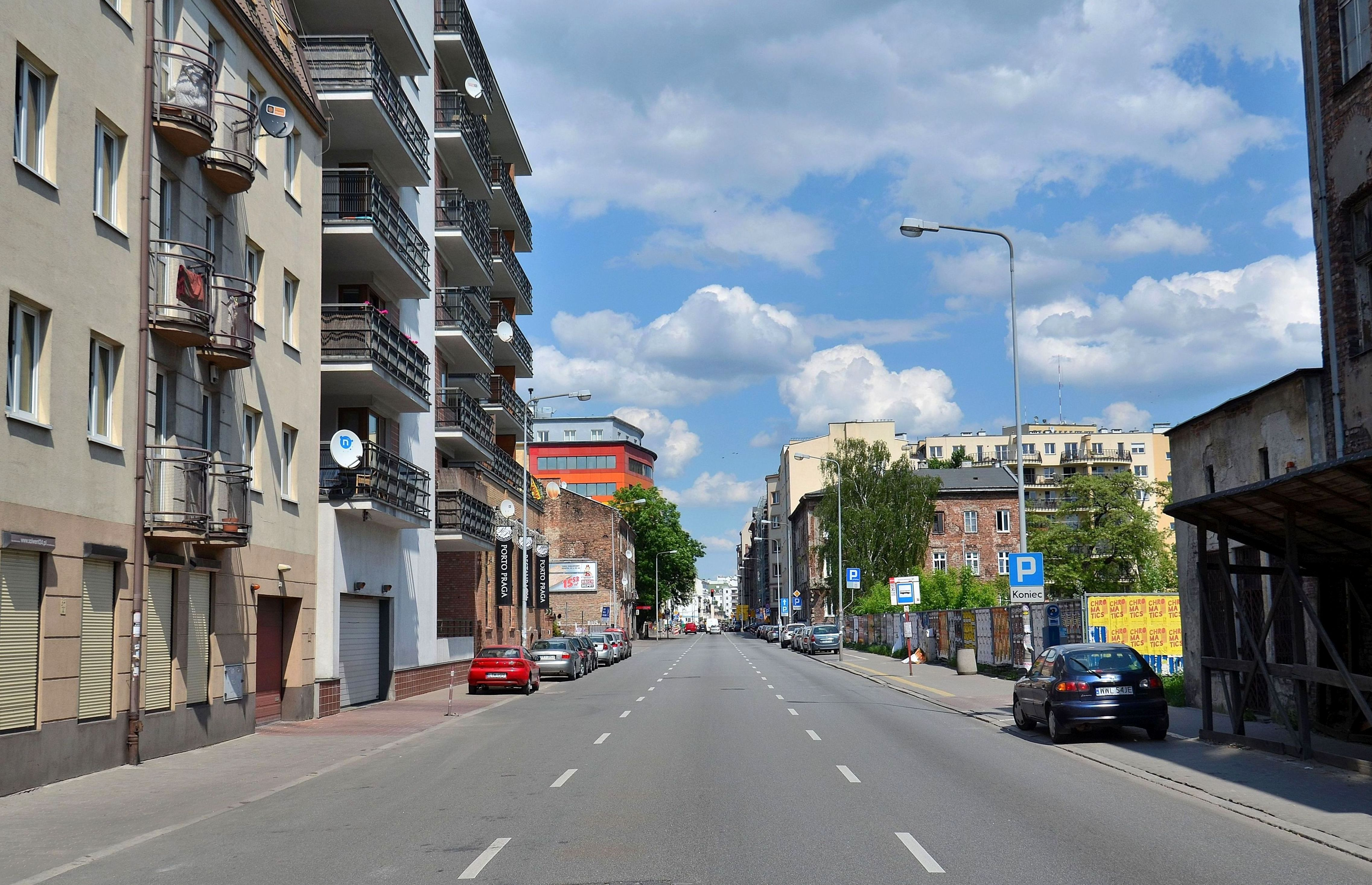 Stefan Okrzeja Street in Warsaw